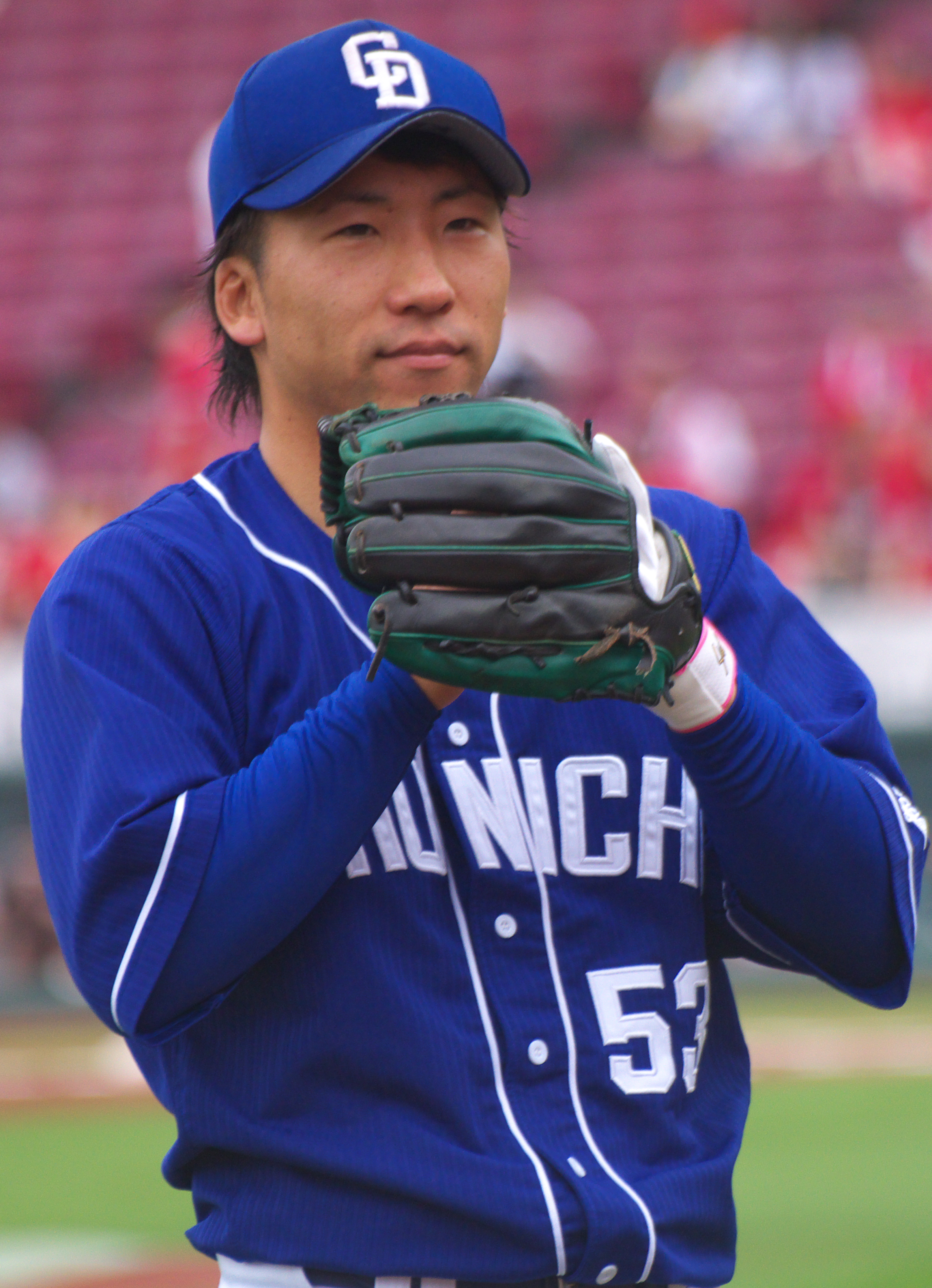 Front on photo of Kamezawa in game practice